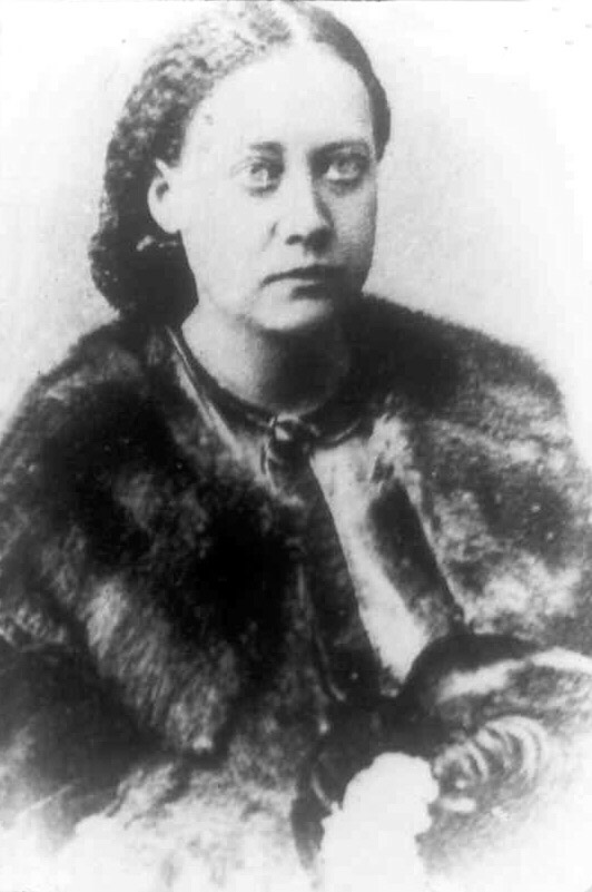 Helena Petrovna Blavatsky (1831-1891)